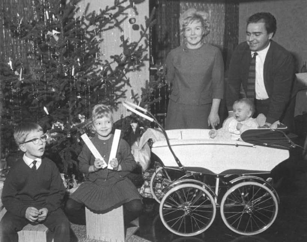 Photograph of the Finnish opera singer Veijo Varpio (1928–2015) with his family.